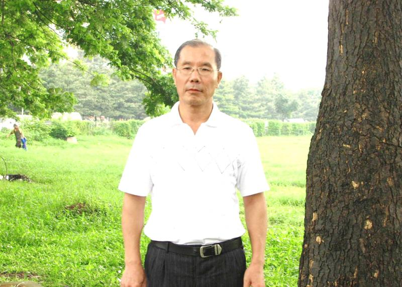 Jia Jia at Indonesia